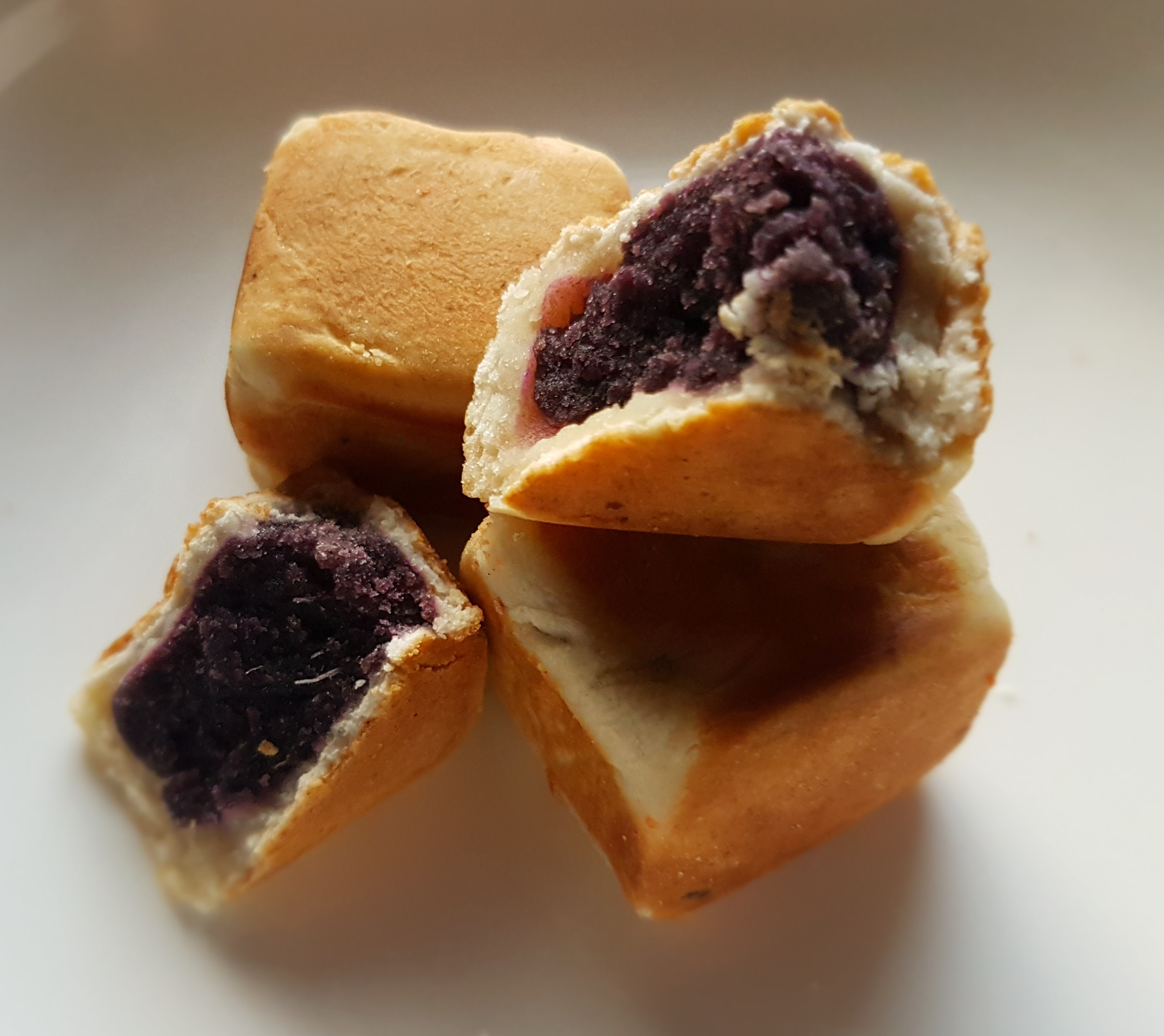 Philippine ube hopia (bakpia) made from purple yam